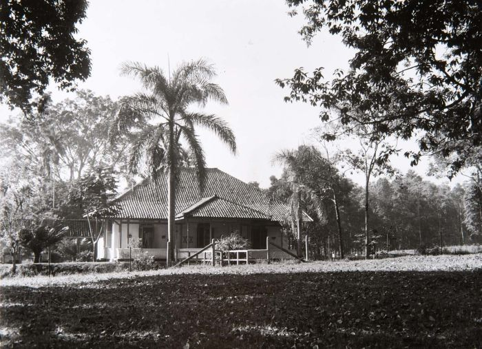 Pasanggrahan, Segalaherang